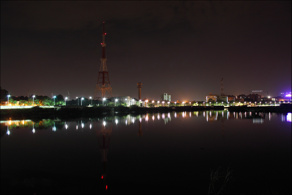 A night shot near napiers bridge in Chennai (Chepauk). Also Madras university is nearby around.